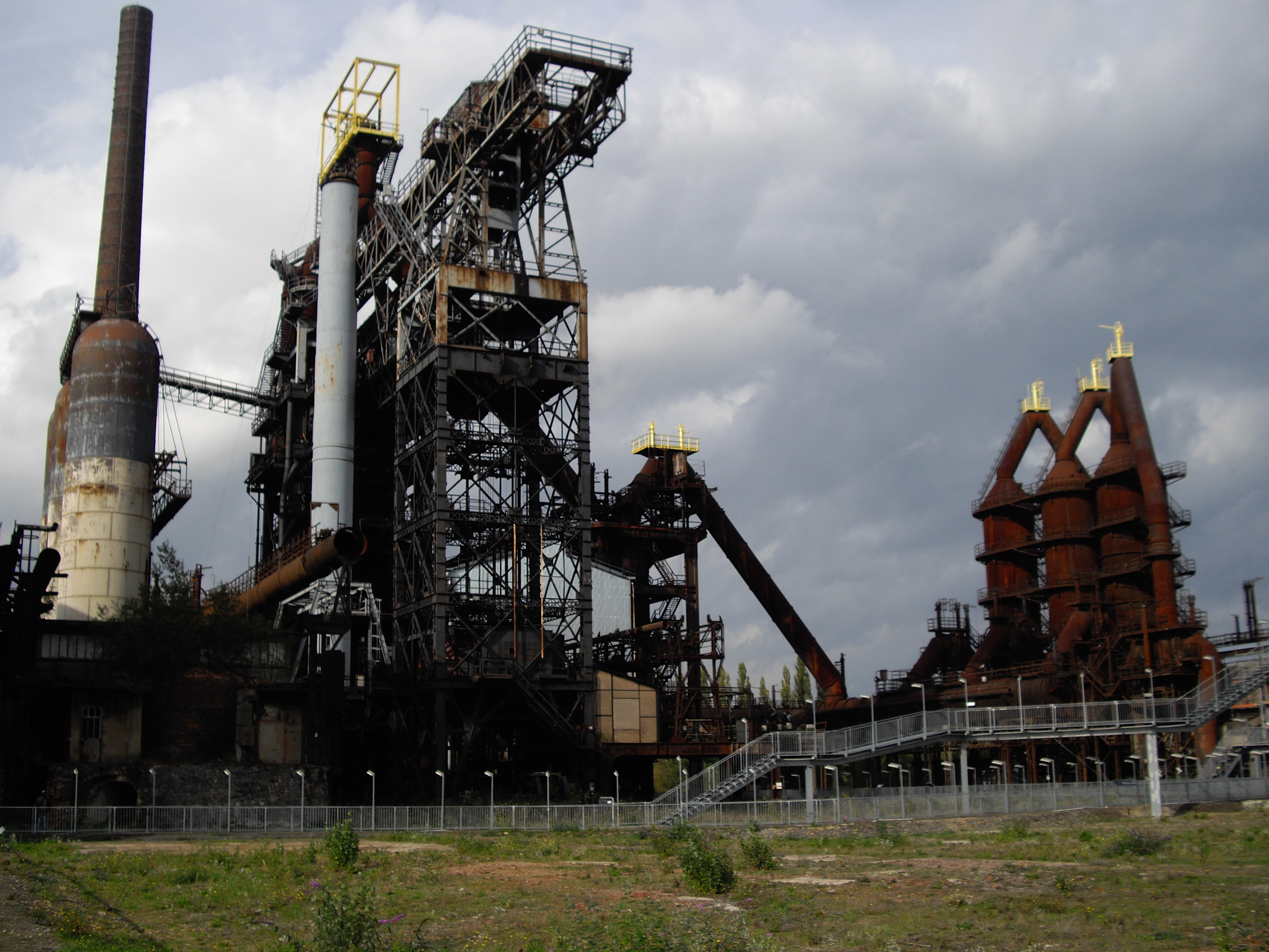 Inside the U4 blast furnace park, in Uckange, Moselle, France.